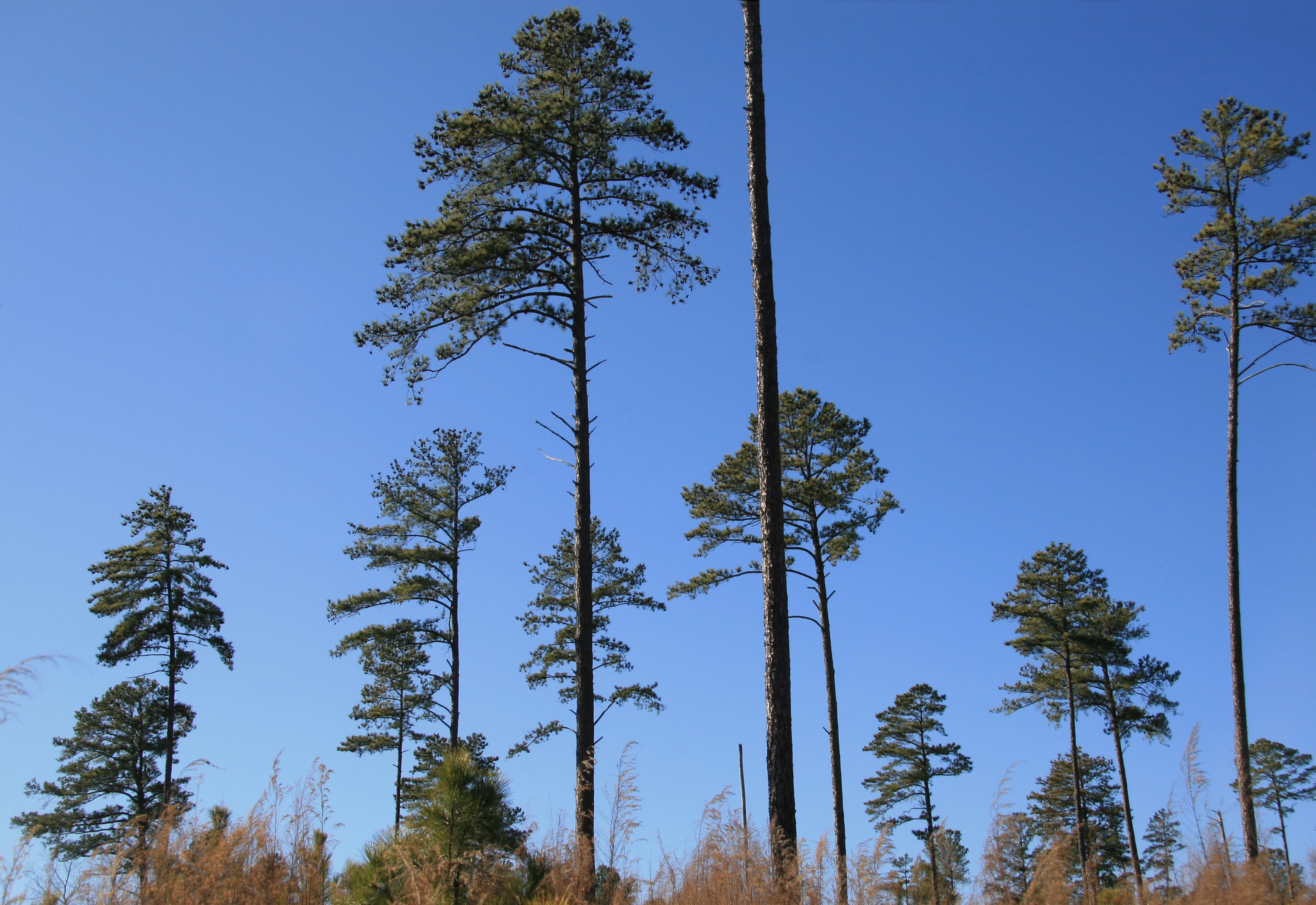 Loblolly pine (Pinus taeda), widely spaced "seed" trees for regrowth after timbering. Duke Forest, Durham, North Carolina, USA.